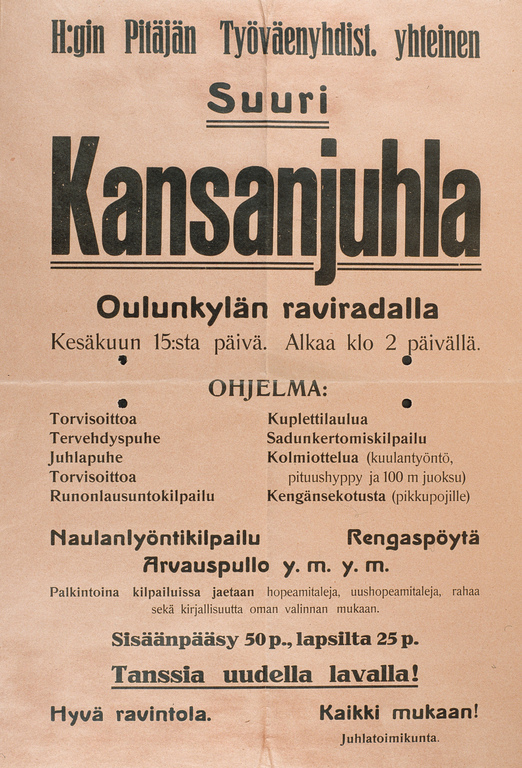 Suuren Kansanjuhlan mainos. Tapahtuma Oulunkylän raviradalla Helsingissä.